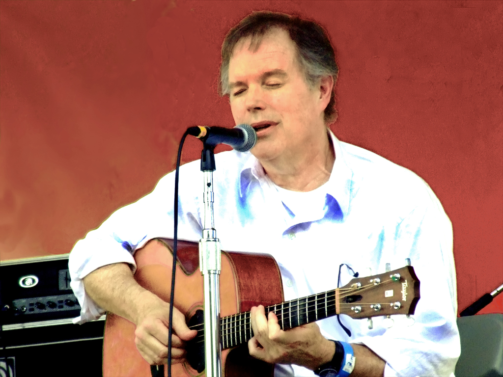 Leo Kottke photographed at the Clearwater Festival 2007 by Anthony Pepitone